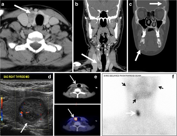 For context, see Computed tomography of the thyroid.